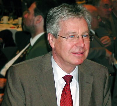 Jens Böhrnsen (SPD), President of the German Bundesrat